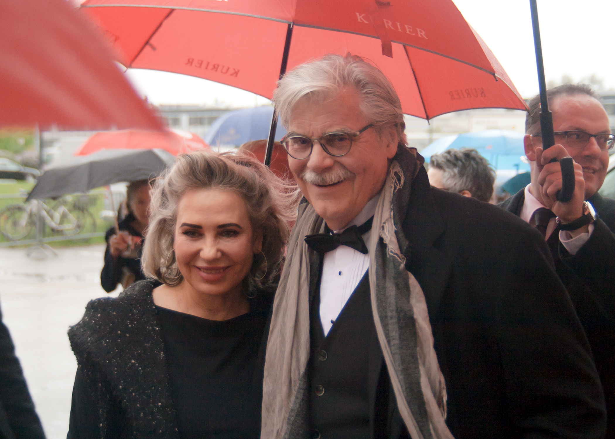 Brigitte Karner and Peter Simonischek on the red carpet of the Romy TV awards 2017 at Hofburg Palace in Vienna, Austria.